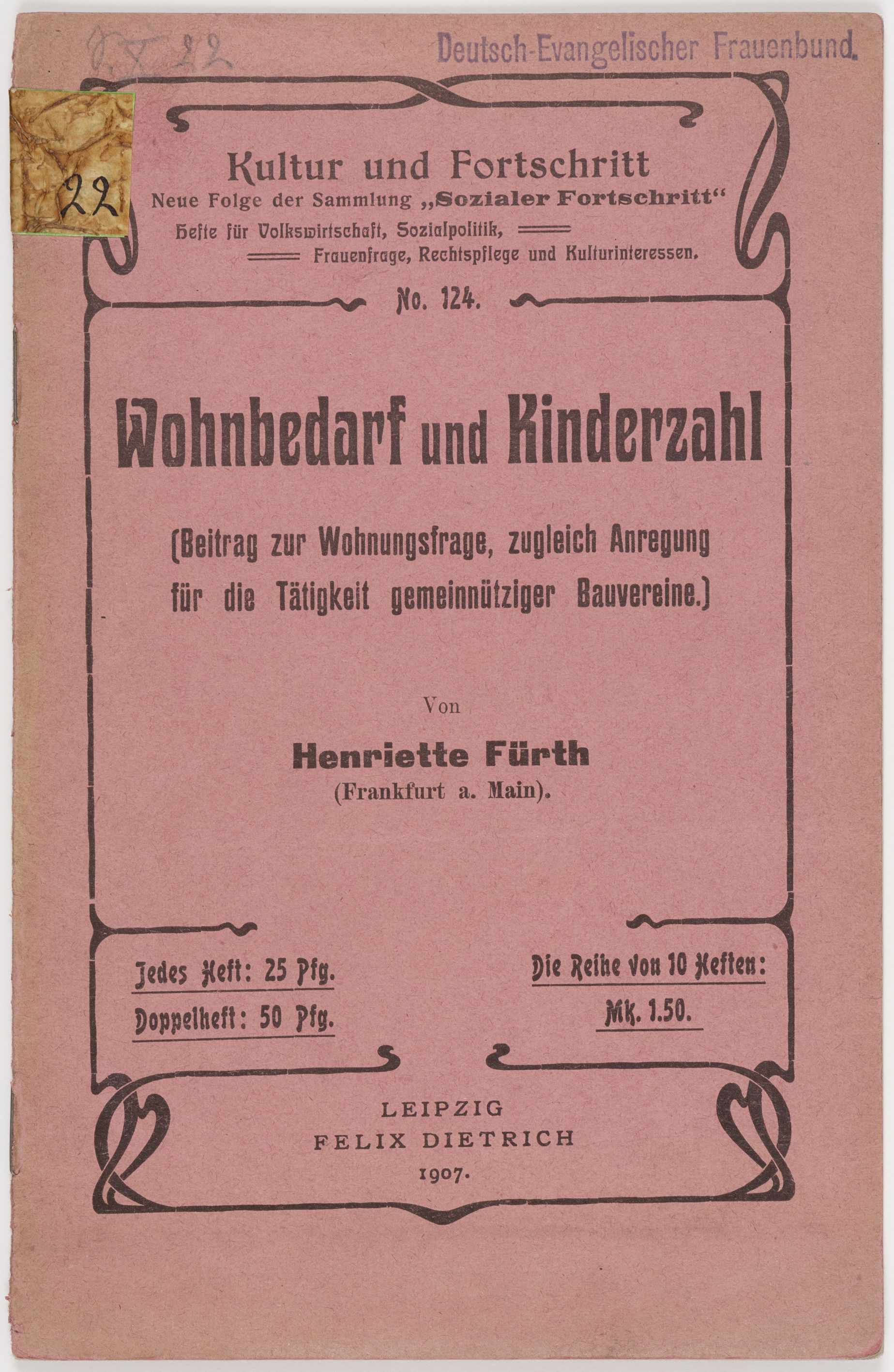 Henriette Fürth, "Wohnbedarf und Kinderzahl", Book, Leipzig 1907. Photo of book in repository of Archiv der deutschen Frauenbewegung (Archive of German Women's Movement), Kassel. Photographer: Horst Ziegenfusz on behalf of Historisches Museum Frankfurt (Historical Museum Frankfurt). Published in Dorothee Linnemann (ed.): Damenwahl! 100 Jahre Frauenwahlrecht. Begleitbuch zur Ausstellung. Societäts-Verlag, Frankfurt am Main 2018, ISBN 978-3-95542-306-3, p. 93.